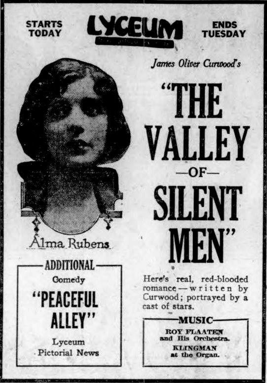 Newspaper advertisement for the American film The Valley of Silent Men (1922) with Alma Rubens, on page 7 of the September 16, 1922 Duluth Herald.